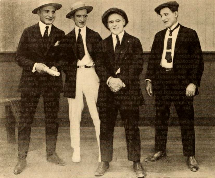 Director George Jeske and actors Charles Haefeli (1887 – 1955), Billy Franey, and Charles Post, on page 48 of the August 14, 1920 Exhibitors Herald.